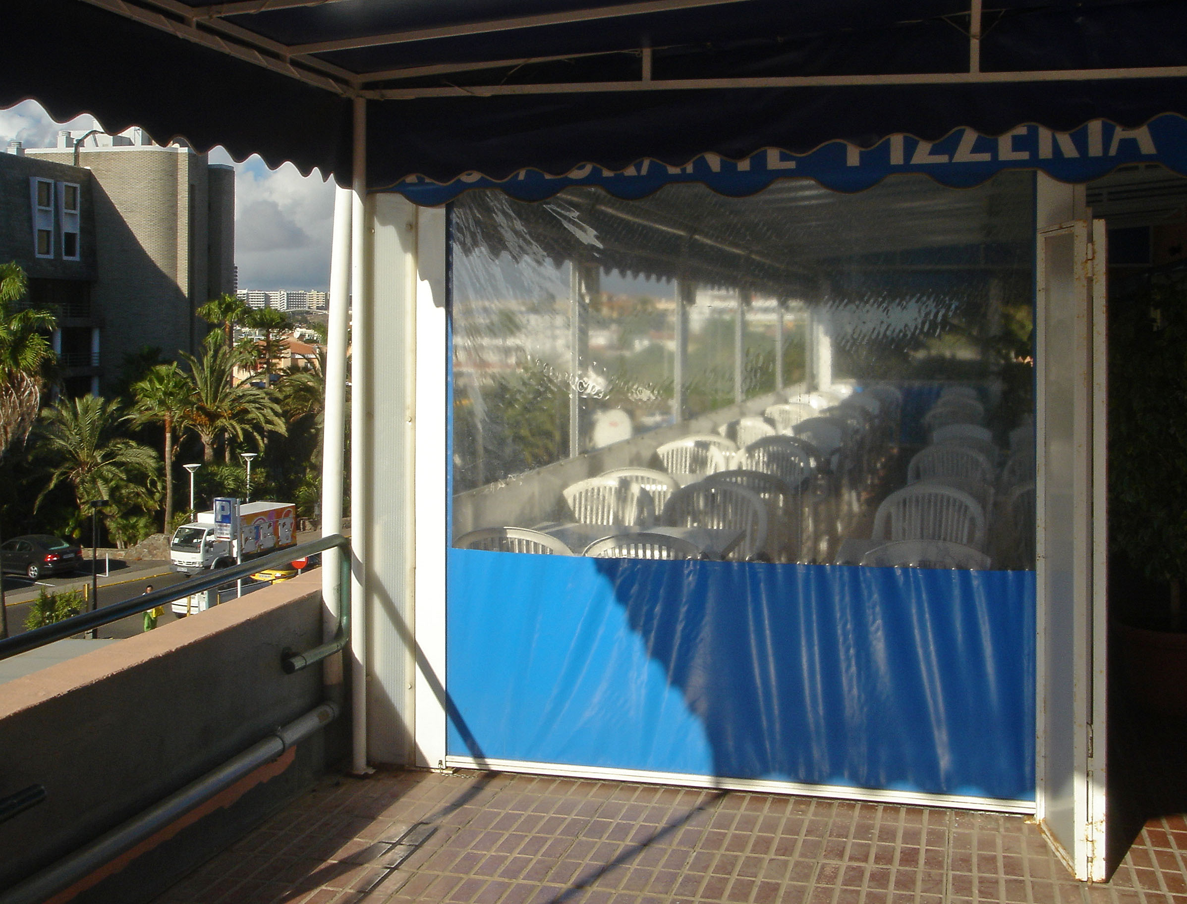 A roll-down windbreak in San Agustin, Spain